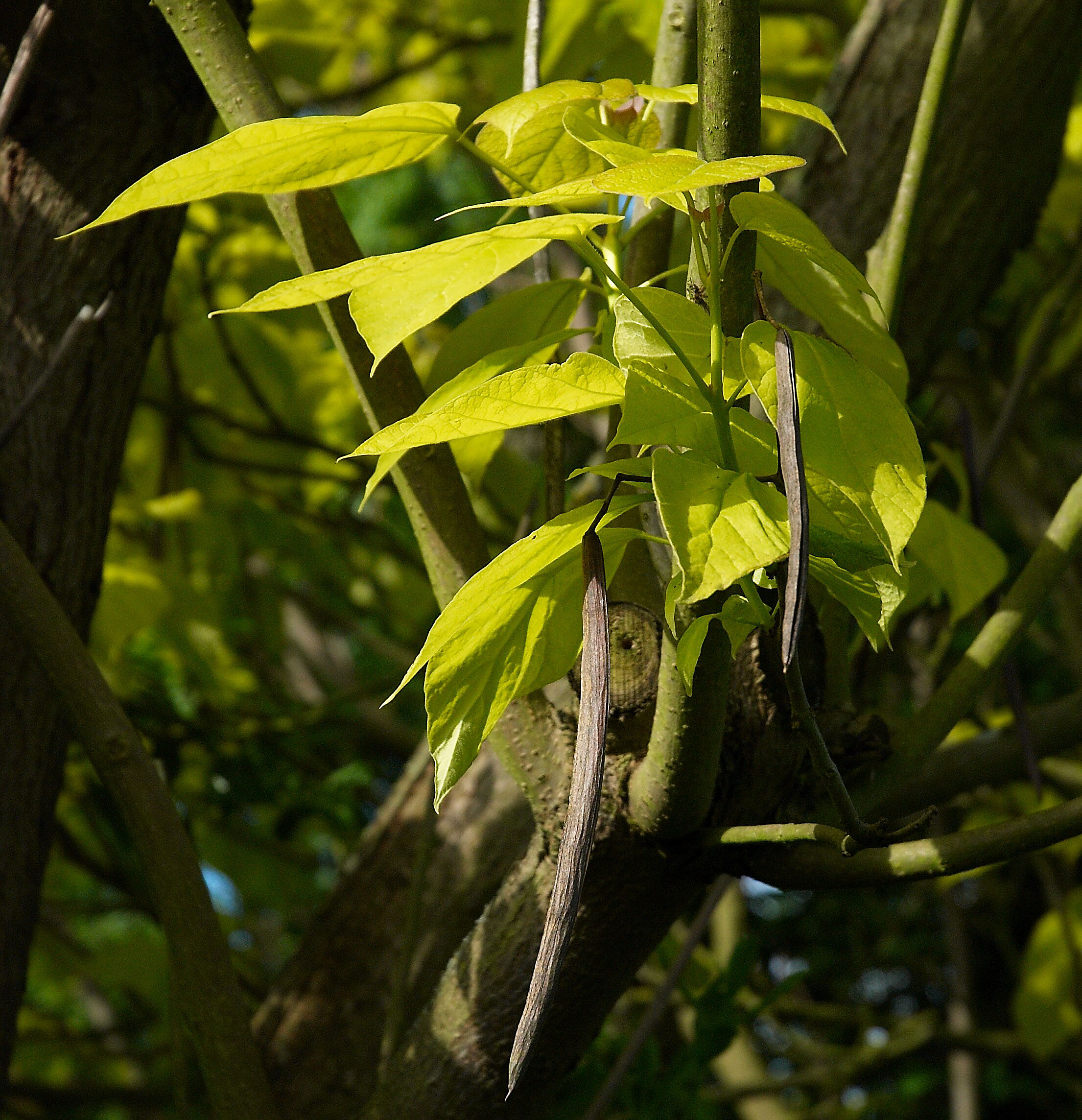 Southern Catalpa